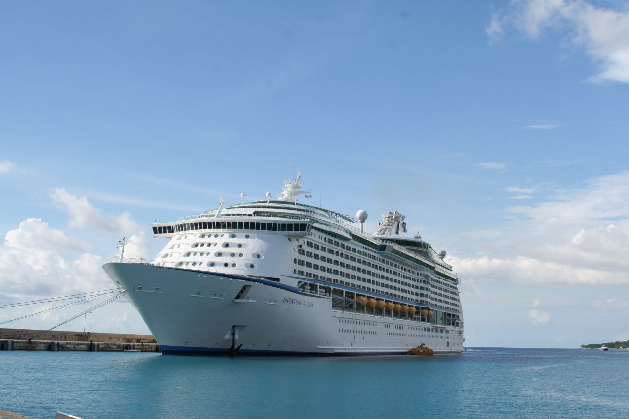 Adventure of the Seasadventure of the seas